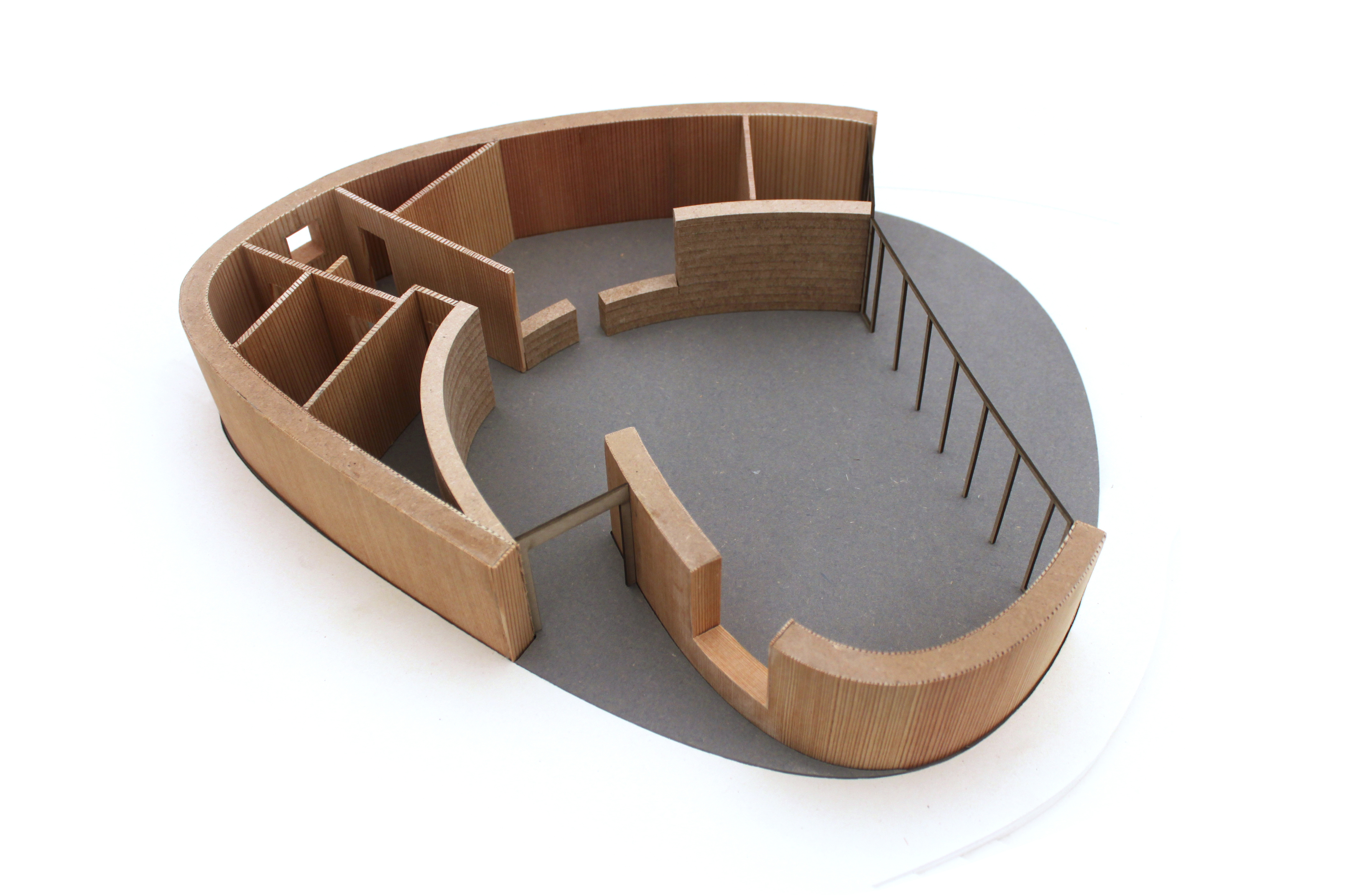 Idea and design: Young people from Wittenberger Weg and children from the Alfred-Herrhausen-Schule with students and teachers of the Hochschule Düsseldorf PBSA; artistic process: Ute Reeh; building application: Molestina Architekten; Model: Franz Klein-Wiele